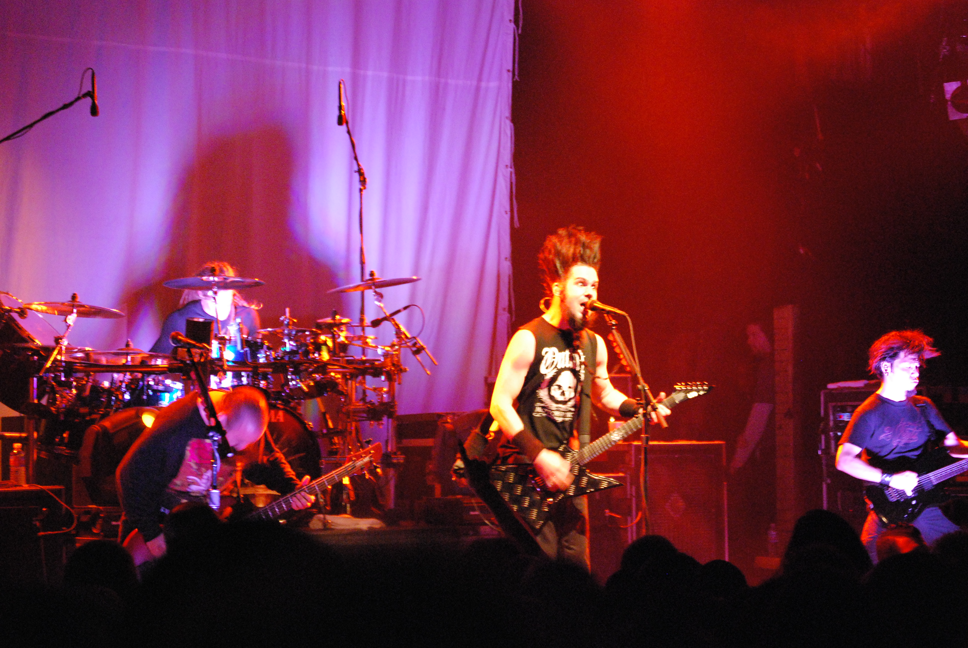 Static-X during the Cannibal Killers tour June 2007